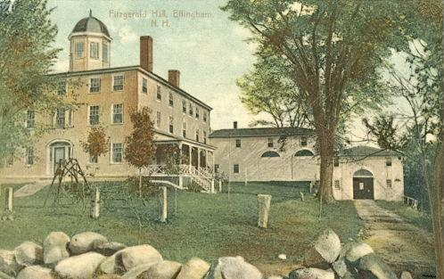 Squire Isaac Lord Mansion, Effingham, New Hampshire. Built in 1822, it was later called Fitzgerald Hall.